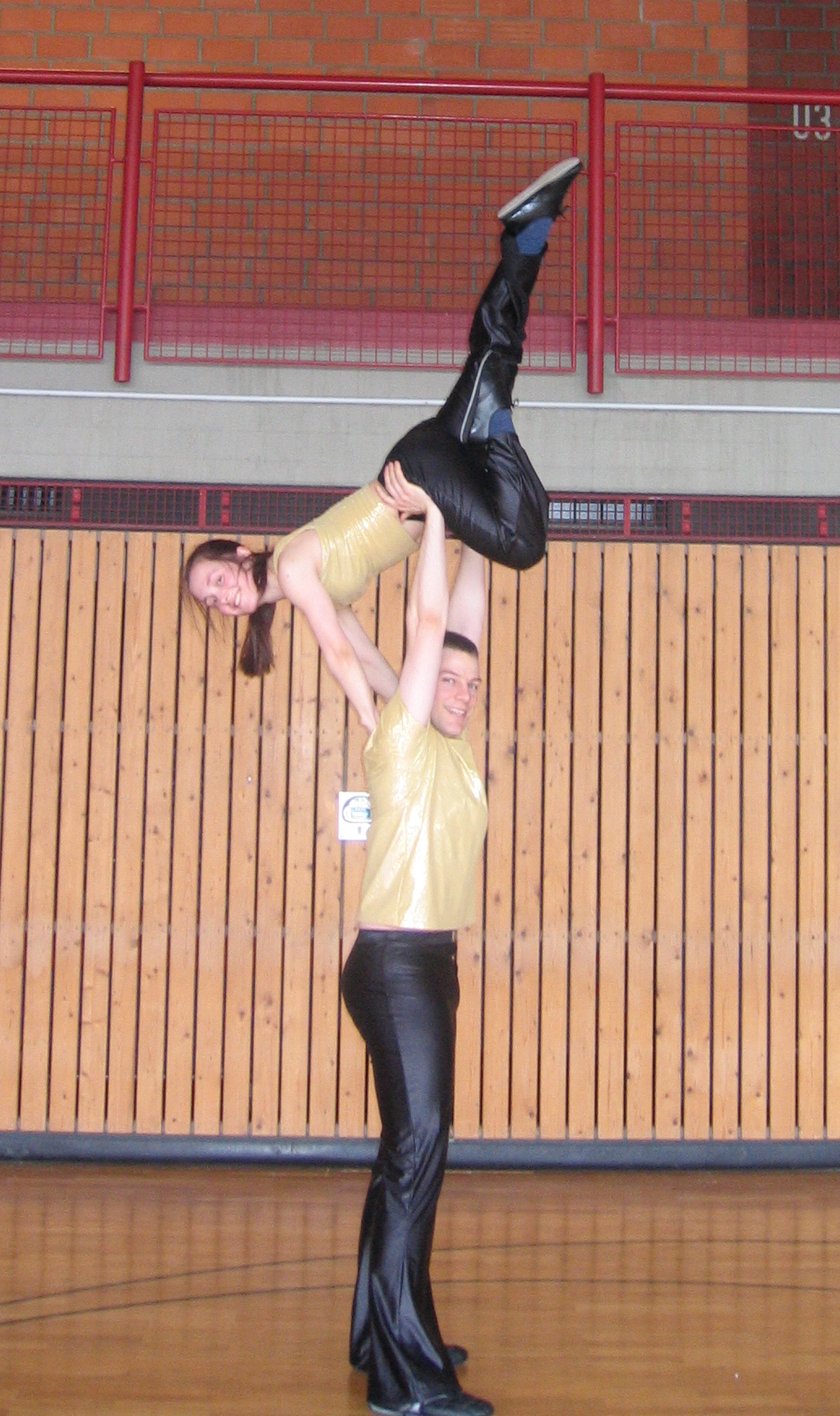 Photo of Rock'n'Roll dancing. The "Swan", a popular acrobatic in the lower classes.